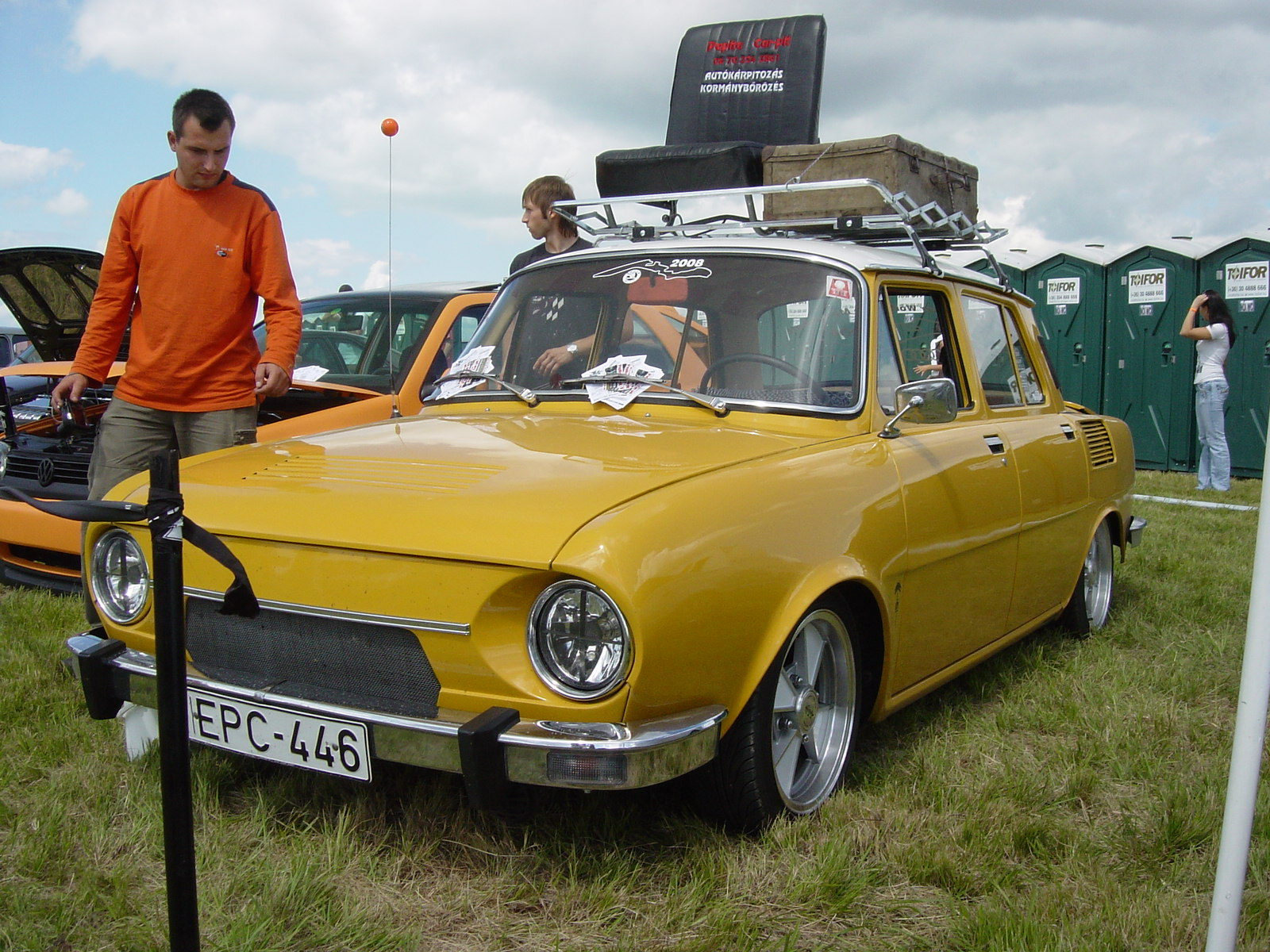 Tuned yellow Škoda 100 during Statoil Verda Napok 2008.